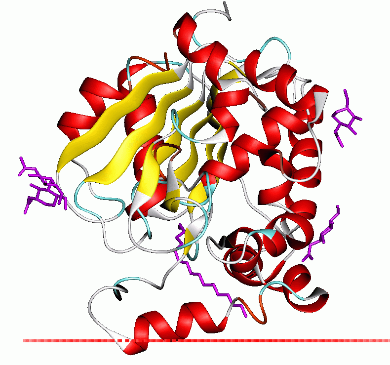 Protein image from OPM database